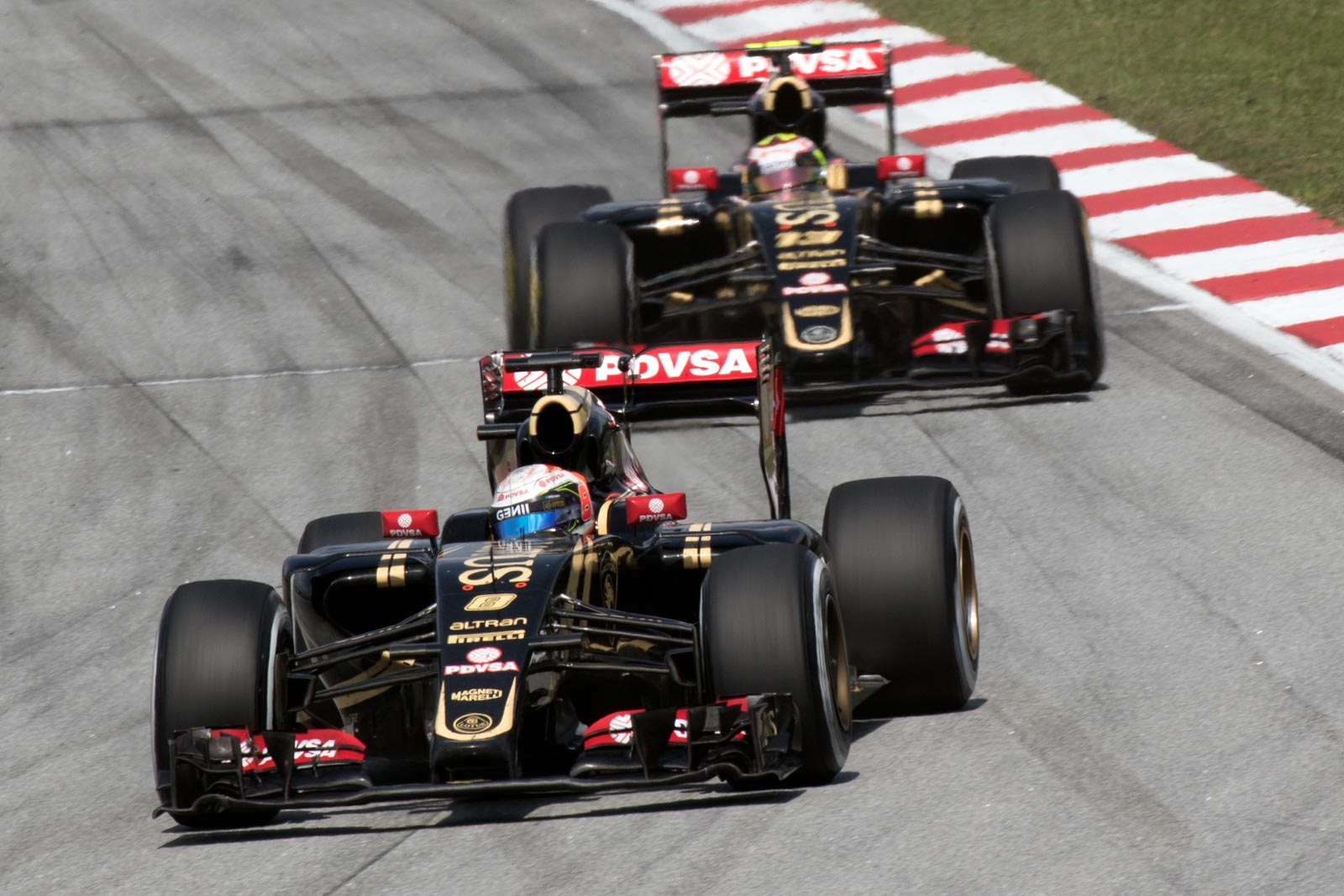 Formula One 2015 Rd.2 Malaysian GP: Romain Grosjean and Pastor Maldonado (Lotus)